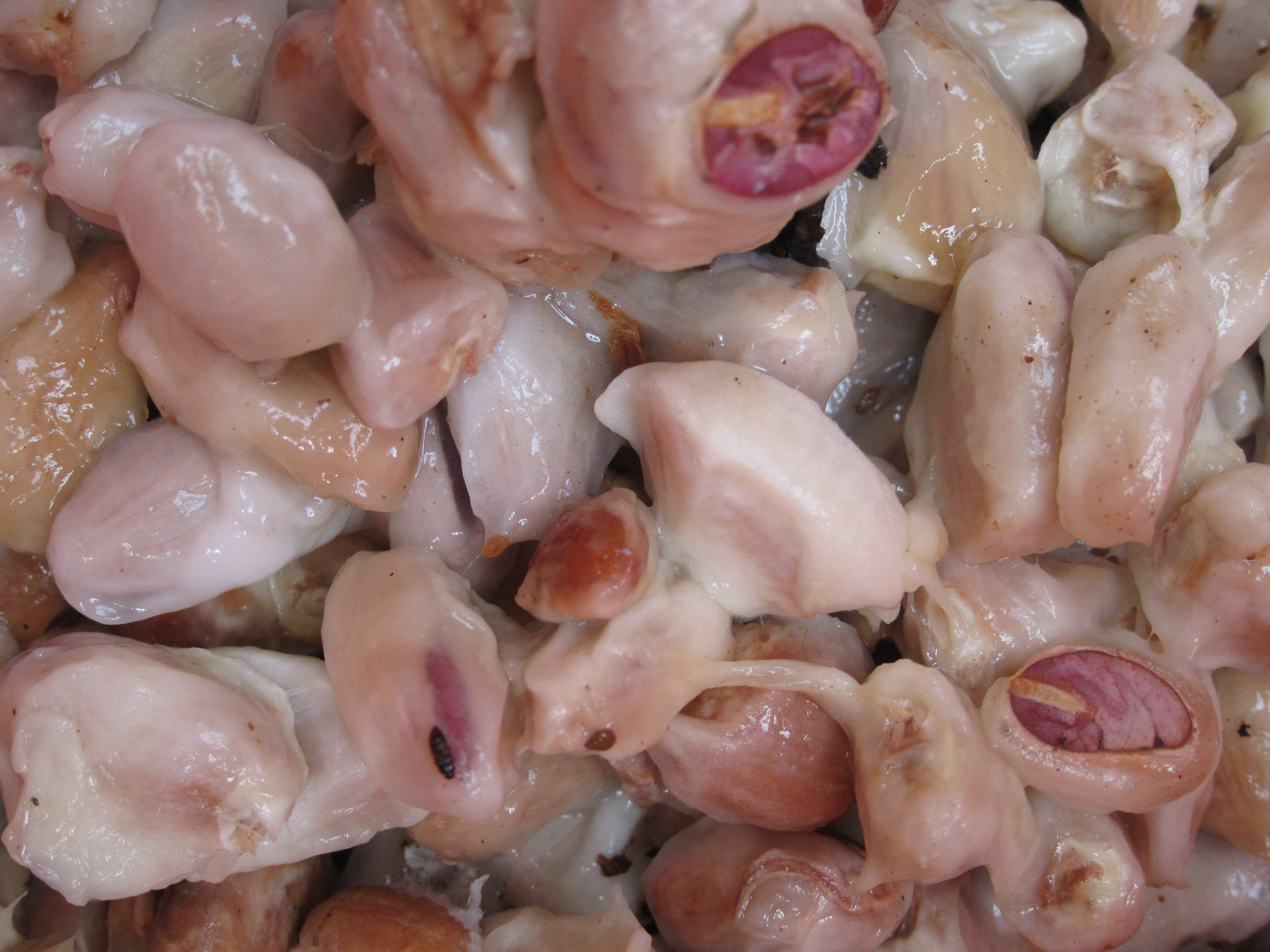 Coco seed